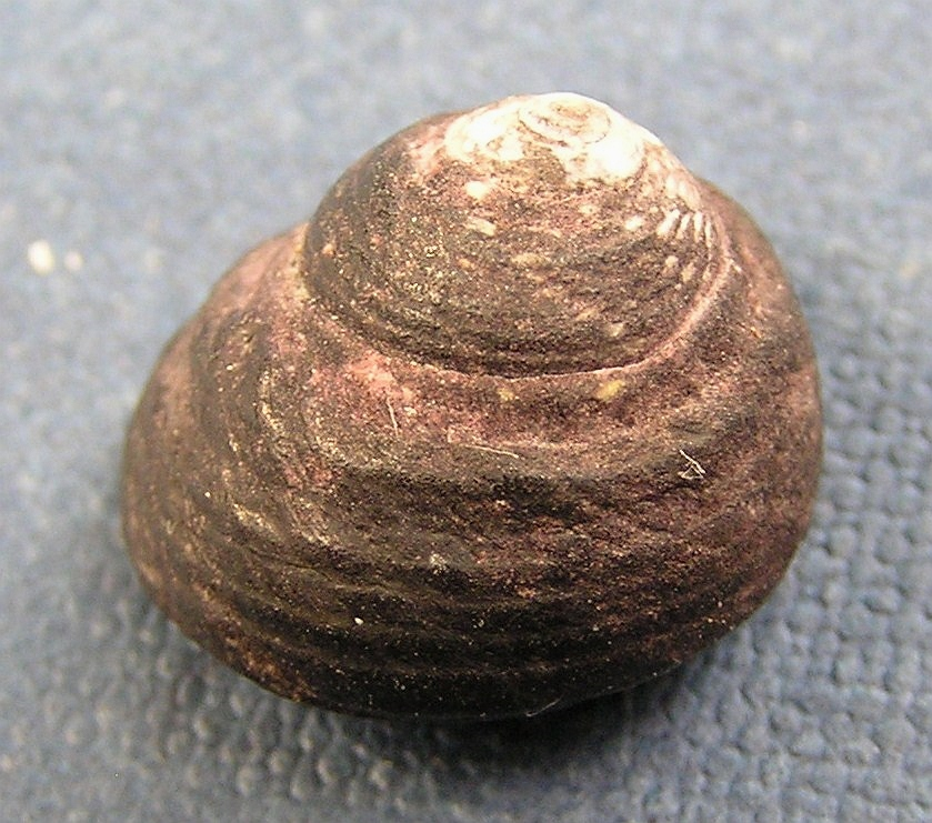 Diloma zelandica (Quoy & Gaimard, 1834) ; New Zealand